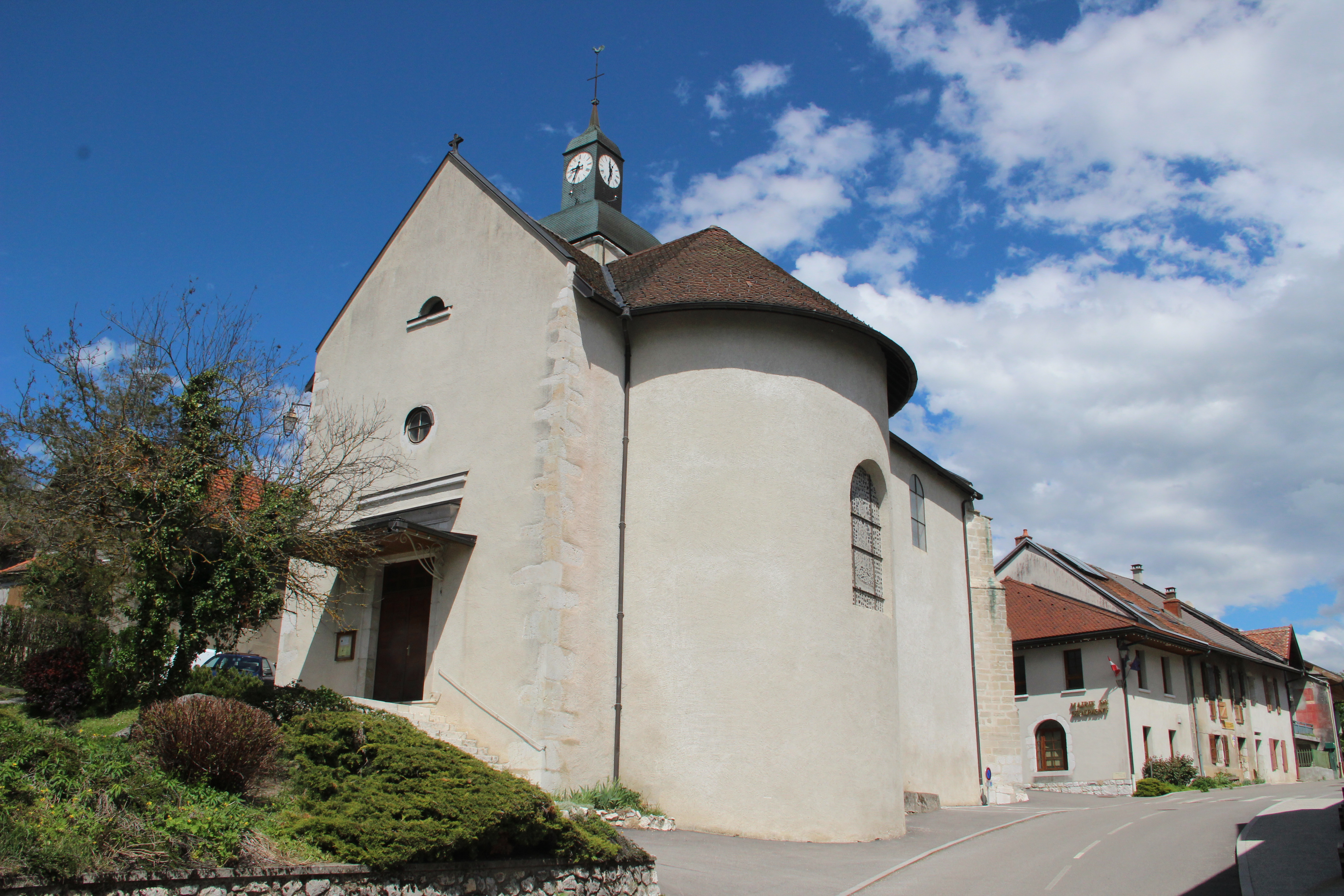 Church of Chaumont